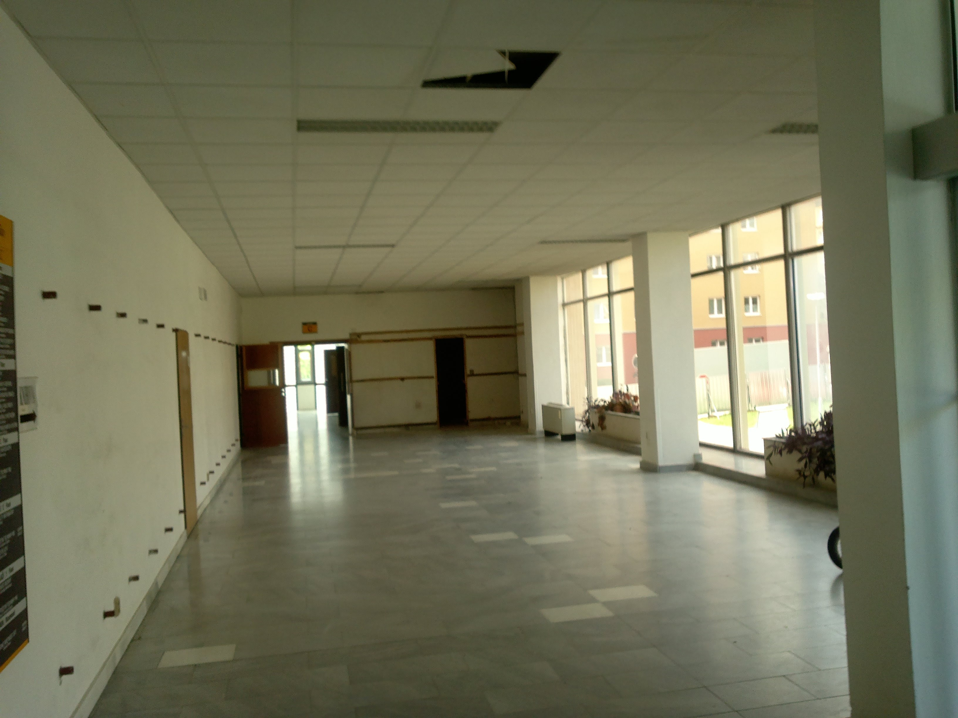 old lobby in Faculty front building - behind photograpfher